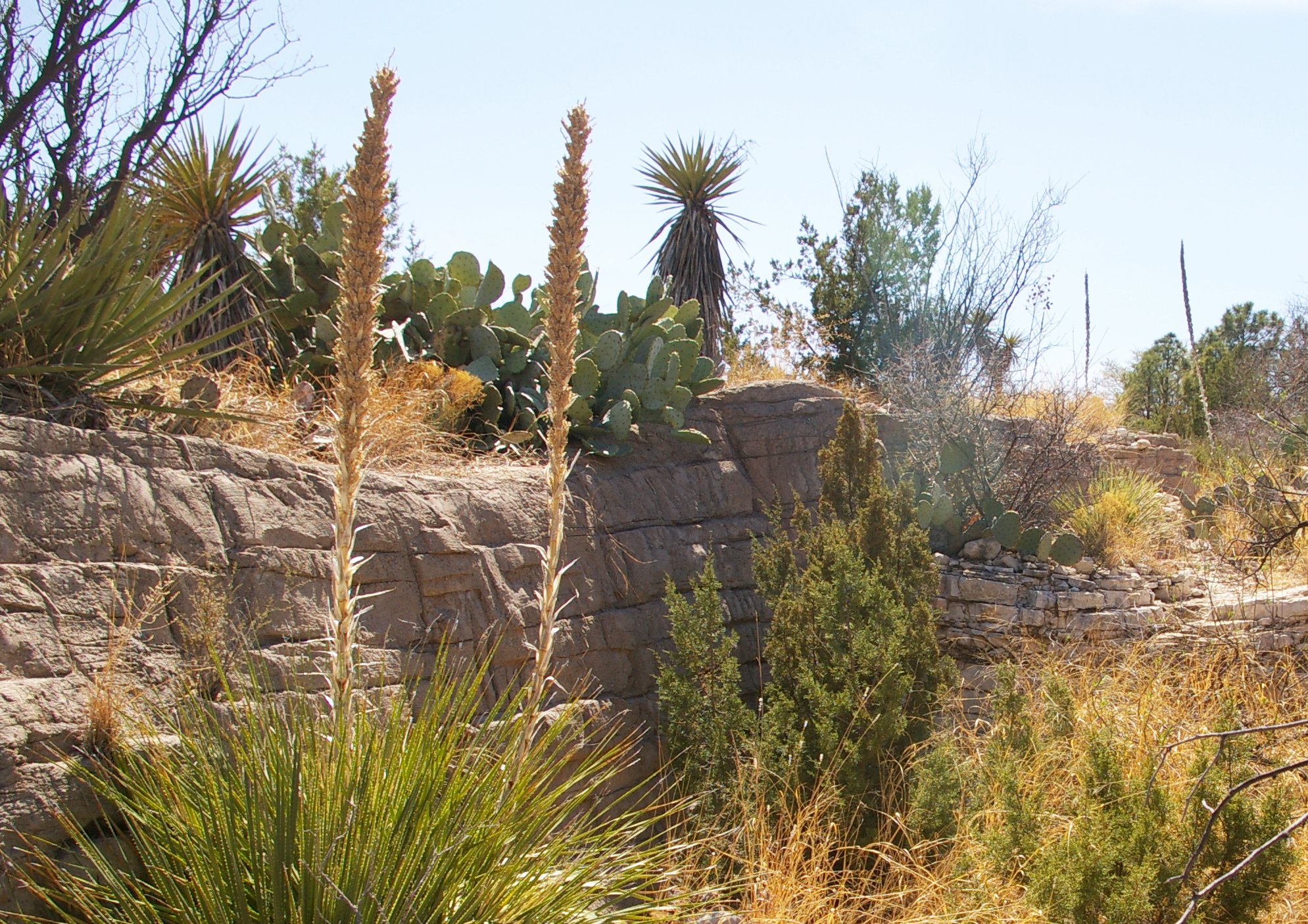 A view of one of the pathways at the Living Desert State Park and Zoo in Carlsbad NM.